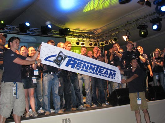 Winners of FSG 2009